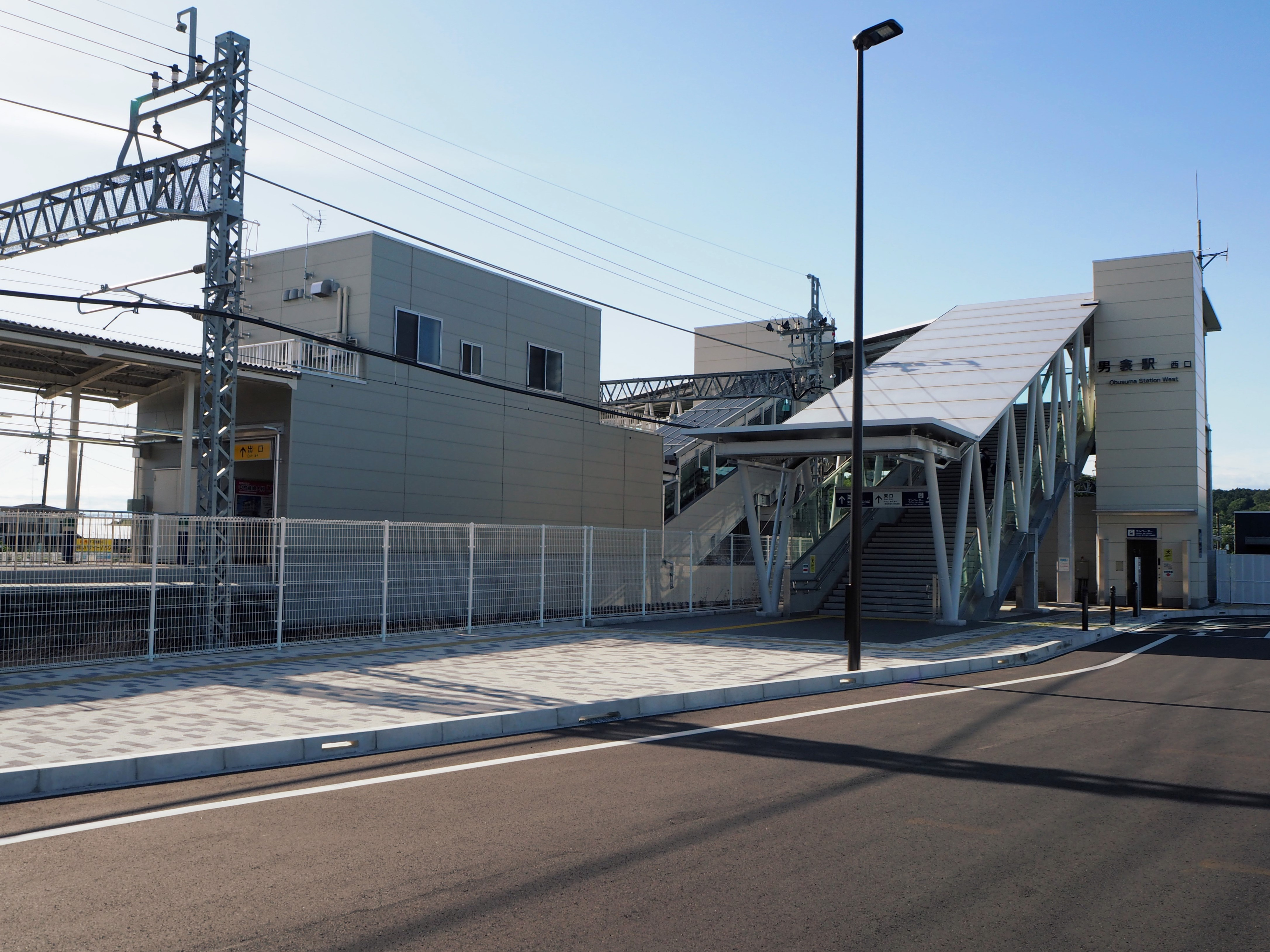 The west entrance to Obusuma Station on the Tobu Tojo Line in Saitama Prefecture, Japan